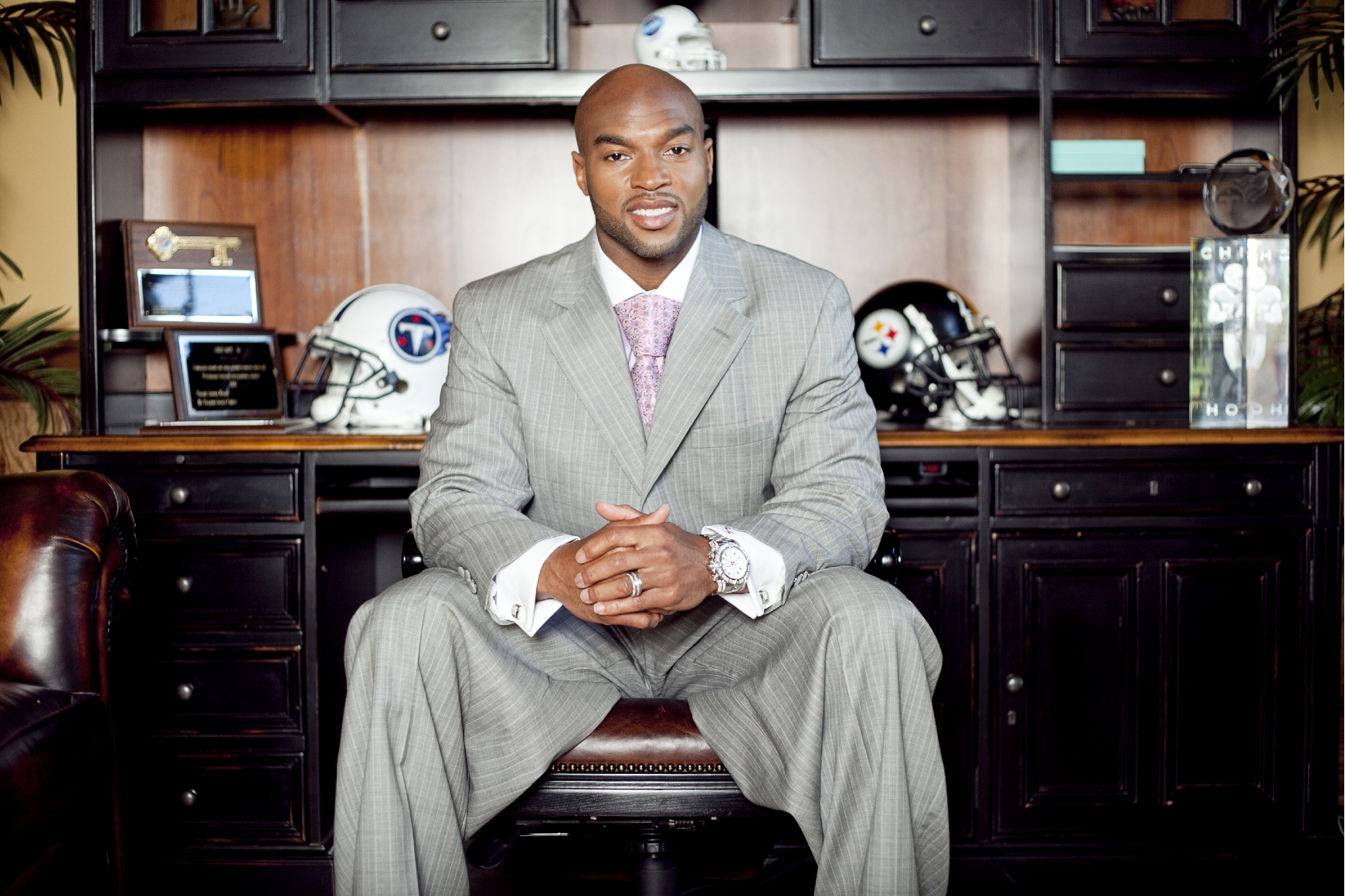 NFL veteran and Super Bowl XL Champion, Chris Hope.